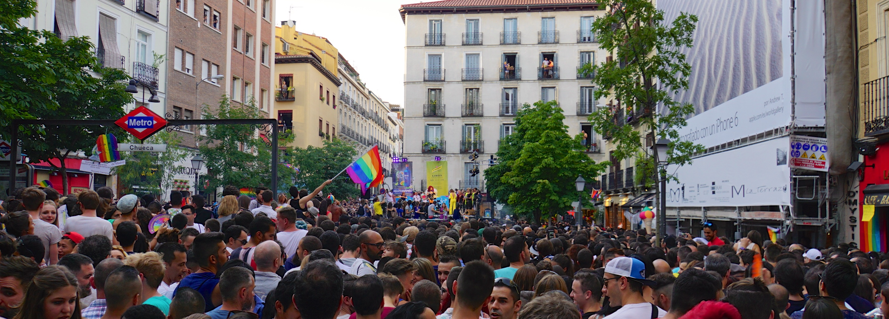 2015.07.01 Madrid Orgullo - LGBTQ Pride